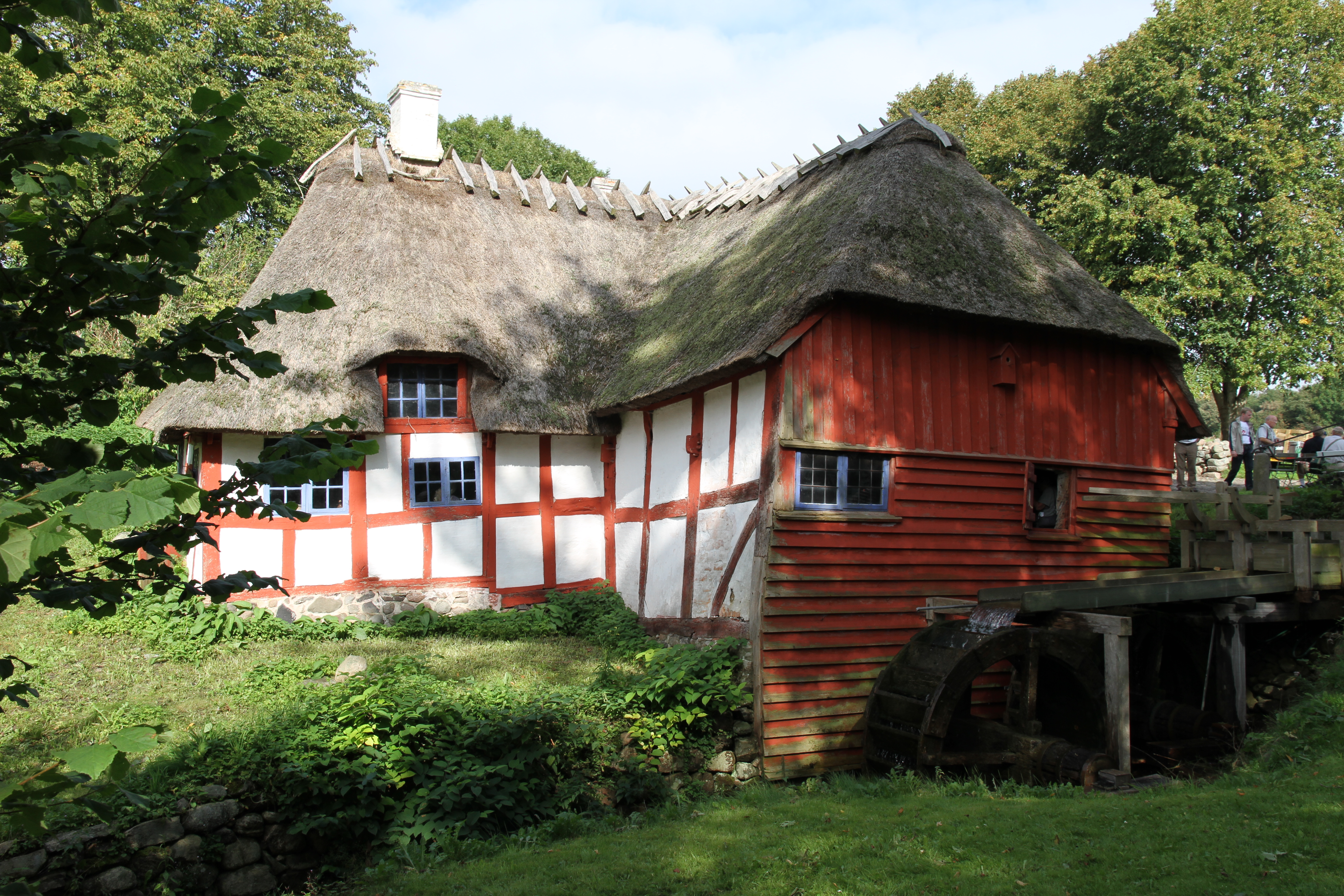 Kaleko Mølle (Watermill) from around 1643, Faaborg, Funen, Denmark.